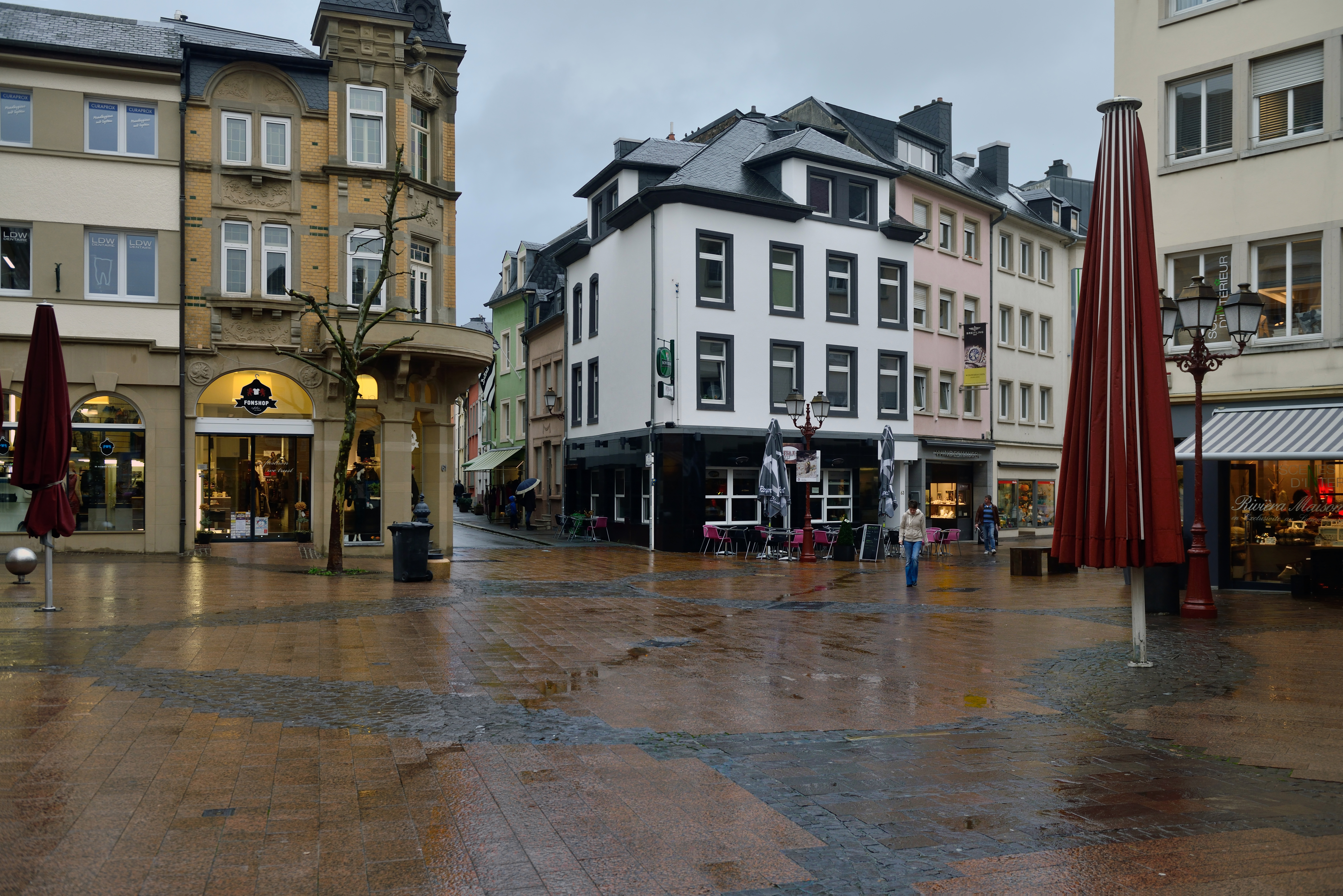 Ettelbruck, Grand-Rue. See the Stolperschwelle in the foreground.